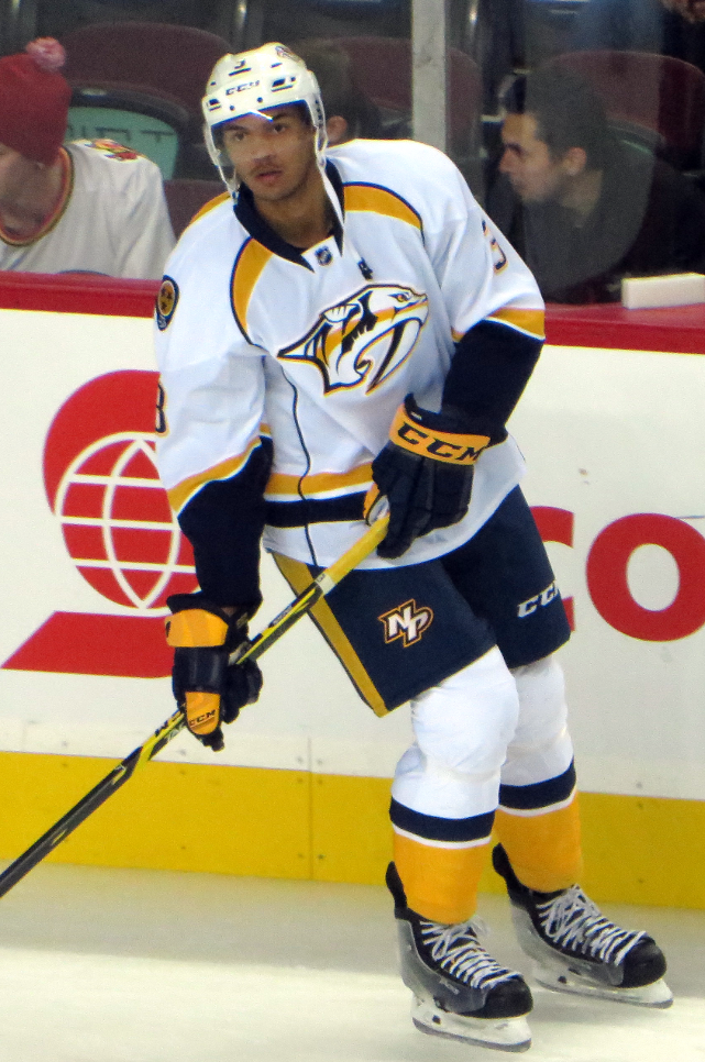 Nashville Predators defenceman Seth Jones prior to a National Hockey League game against the Calgary Flames.